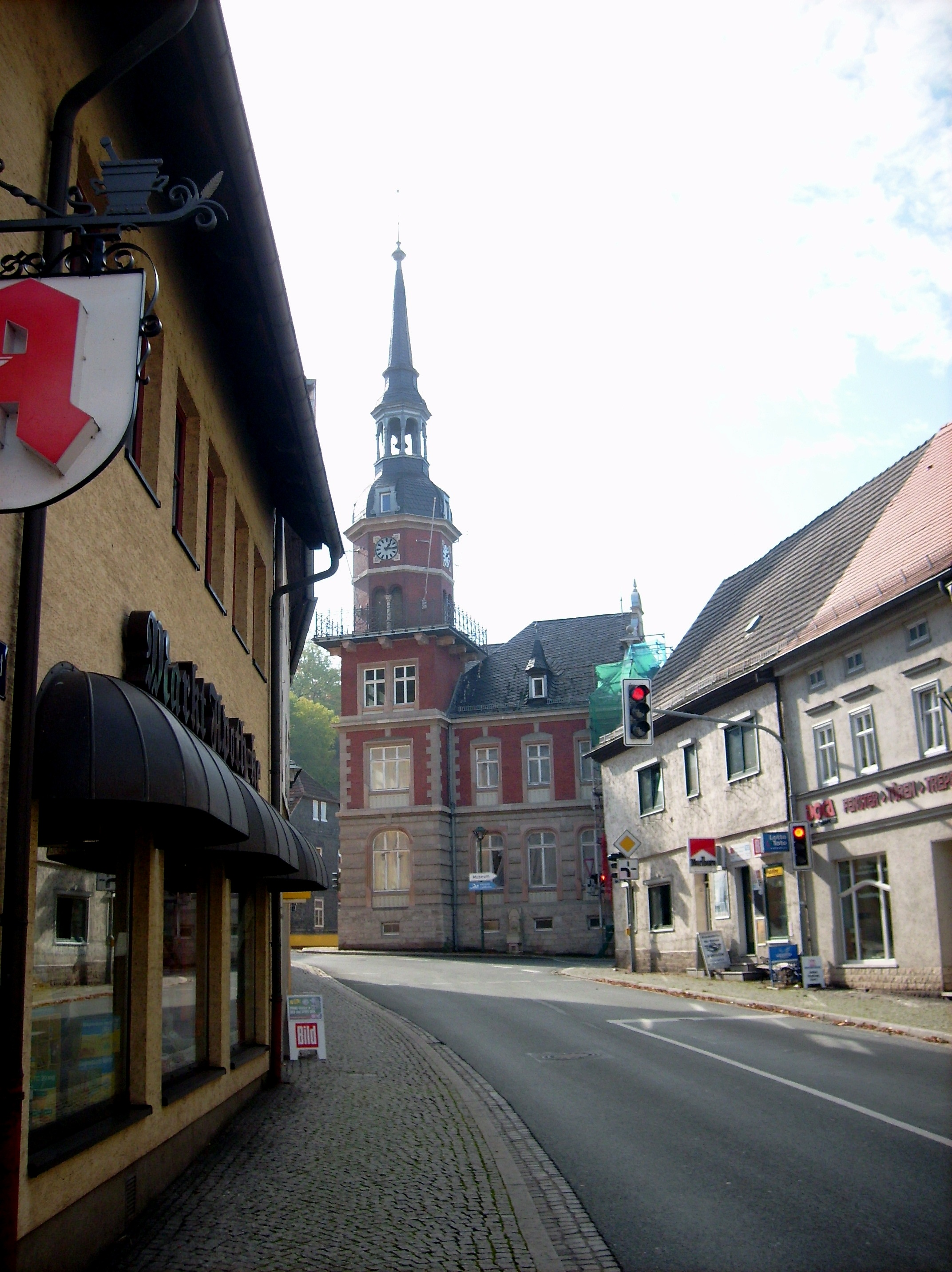 Market in Camburg (Dornburg-Camburg, district of Saale-Holzland-Kreis, Thuringia) with the town hall in the background